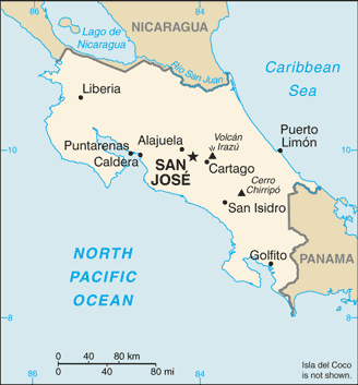 Costa Rica map from CIA World Factbook, converted from original GIF format